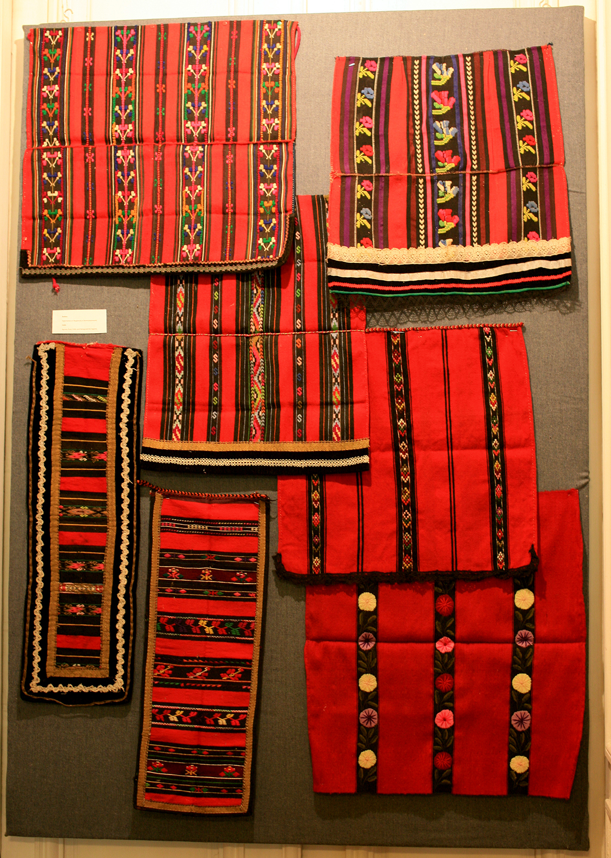 National costumes of Bulgaria